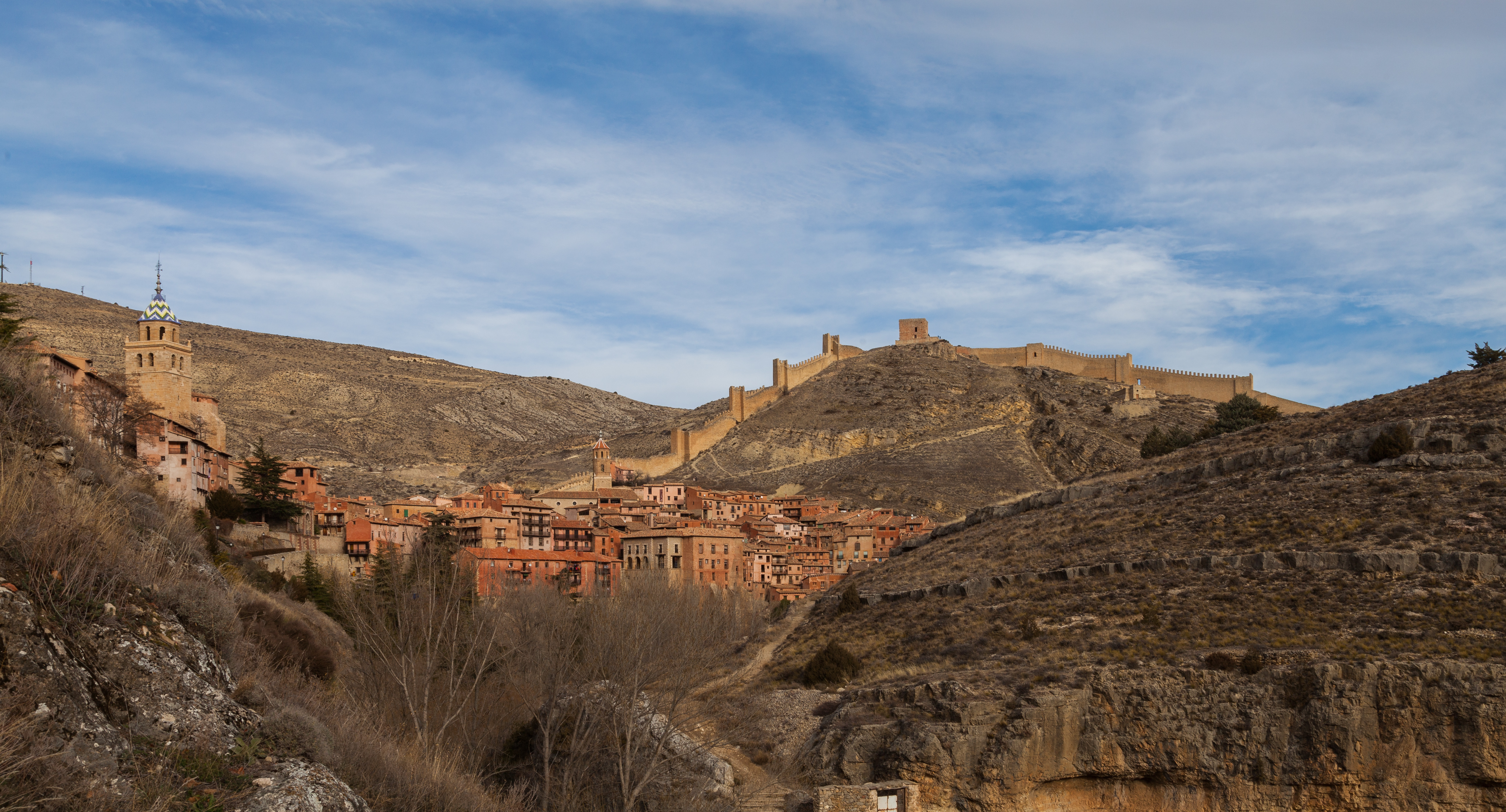 Albarracín, Teruel, Spain